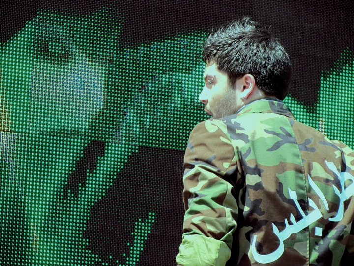 Belime at the Tripoli International Half Marathon.